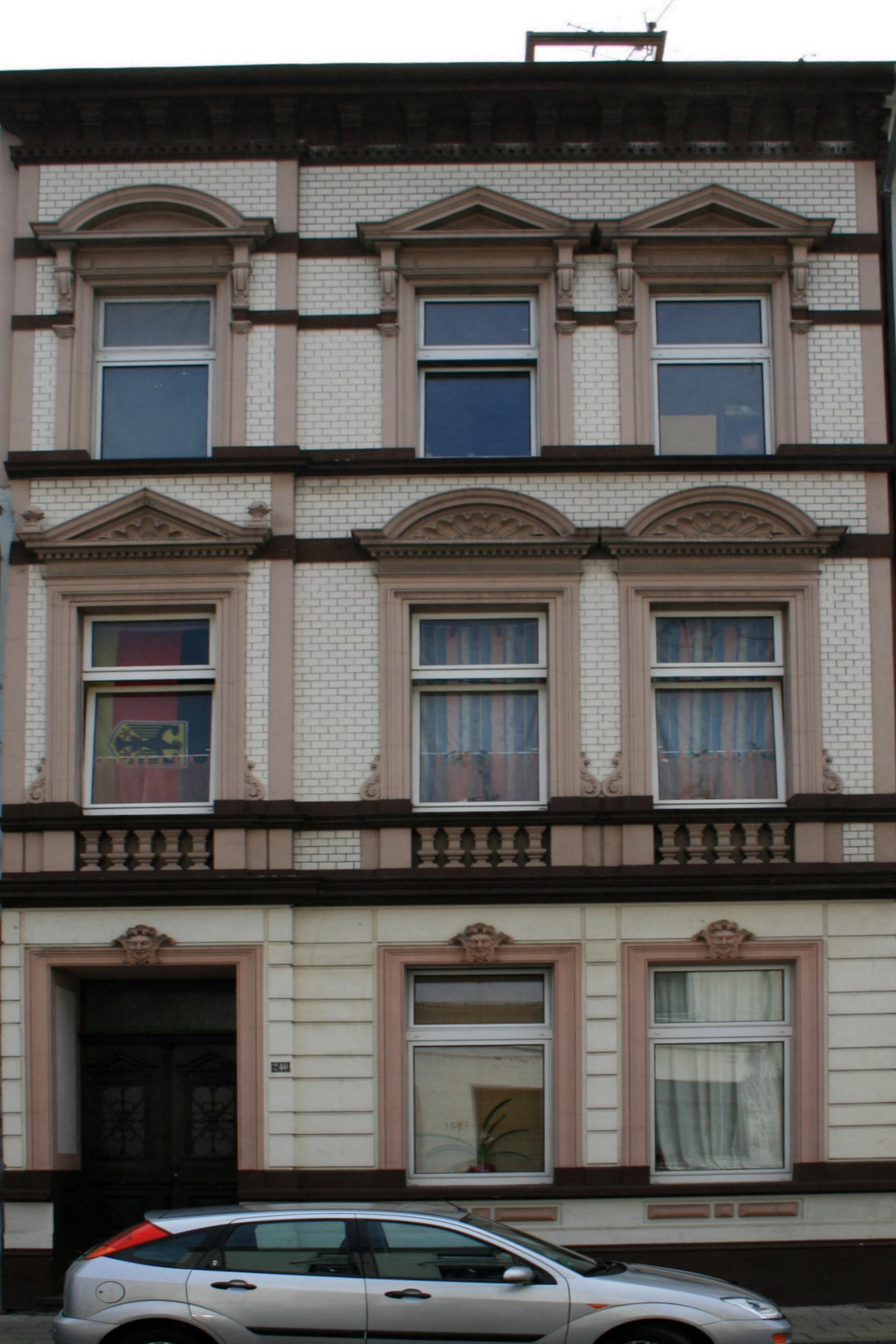 Cultural heritage monument No. H 040 in Mönchengladbach